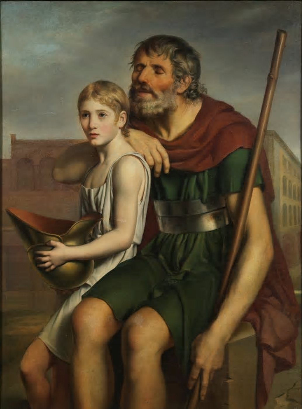 Belisarius by Per Krafft the Younger, Nationalmuseum, Stockholm